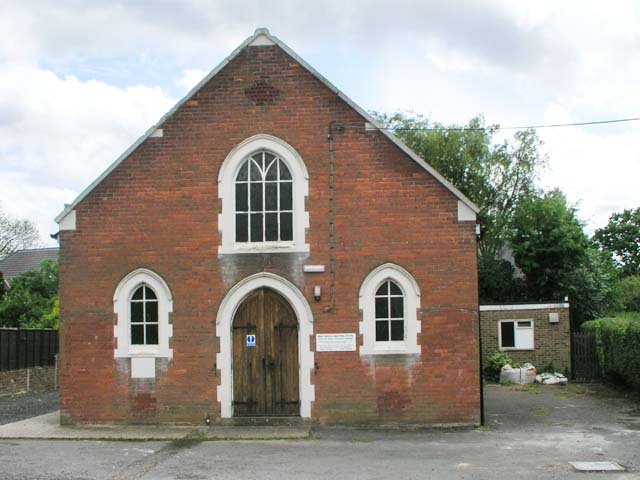 Brethren's Meeting Room Built in 1908 as a daughter church of 382506 it was known as Broadbridge Heath Free Church until the late 1990s/early 2000s when its congregation had dissipated. It was the home of Busy Bees pre-school until the Unitarian church sold the property to its current owners. Under the left-hand window is a commemorative stone made almost illegible by countless layers of paint. It reads, "This stone was laid by Mr Samuel Barrow of Burningfold Hall July 16th 1908"